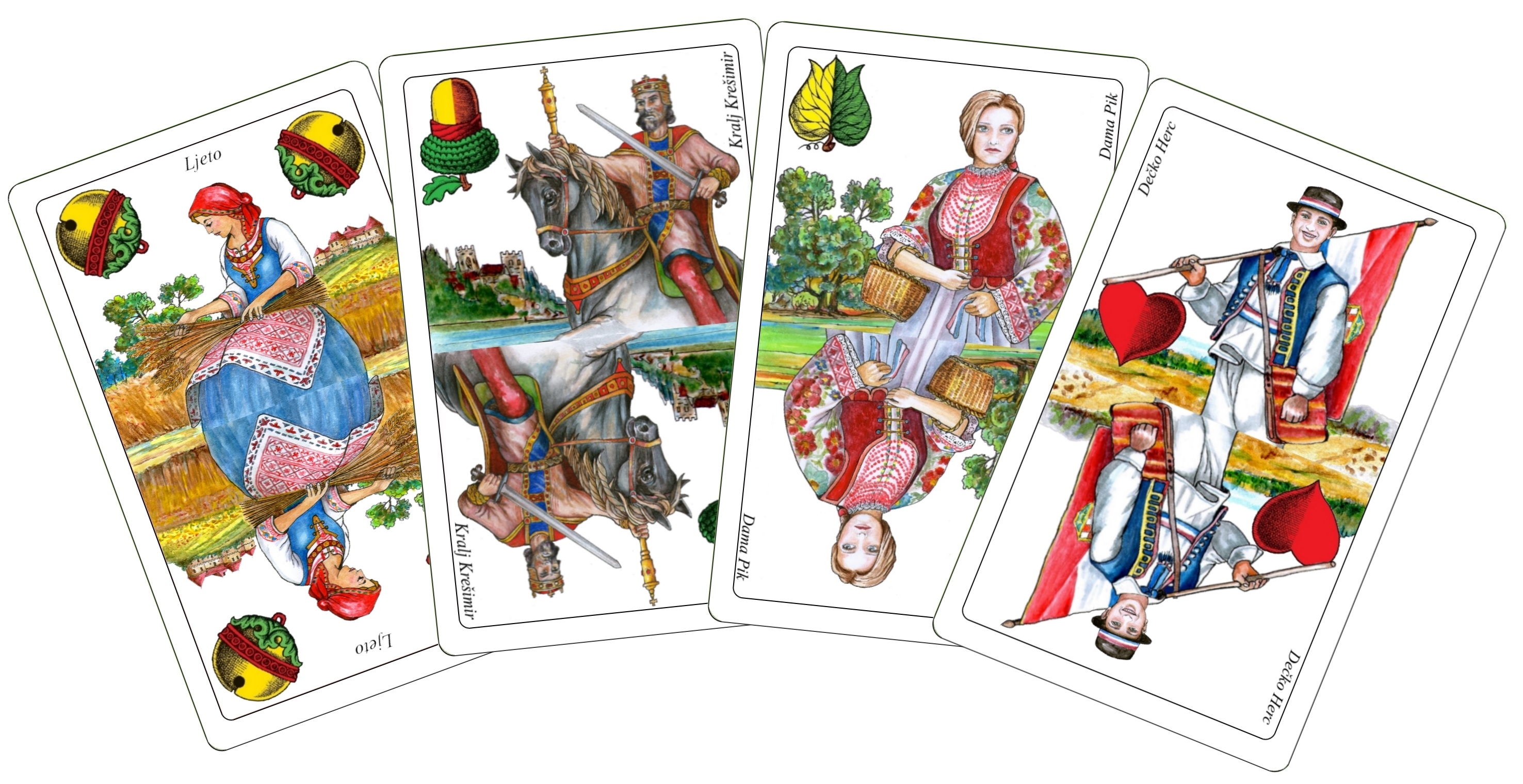 Croatian cards for belot